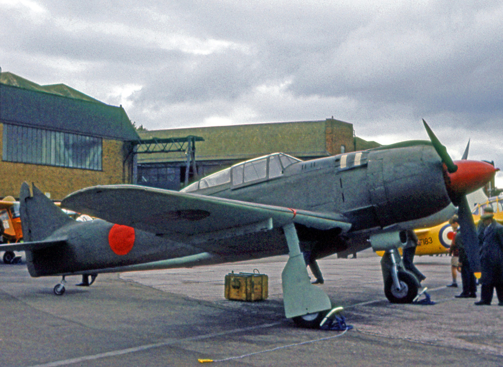 Kawasaki Ki-100 at RAF Ternhill in 1962 with hangars in background